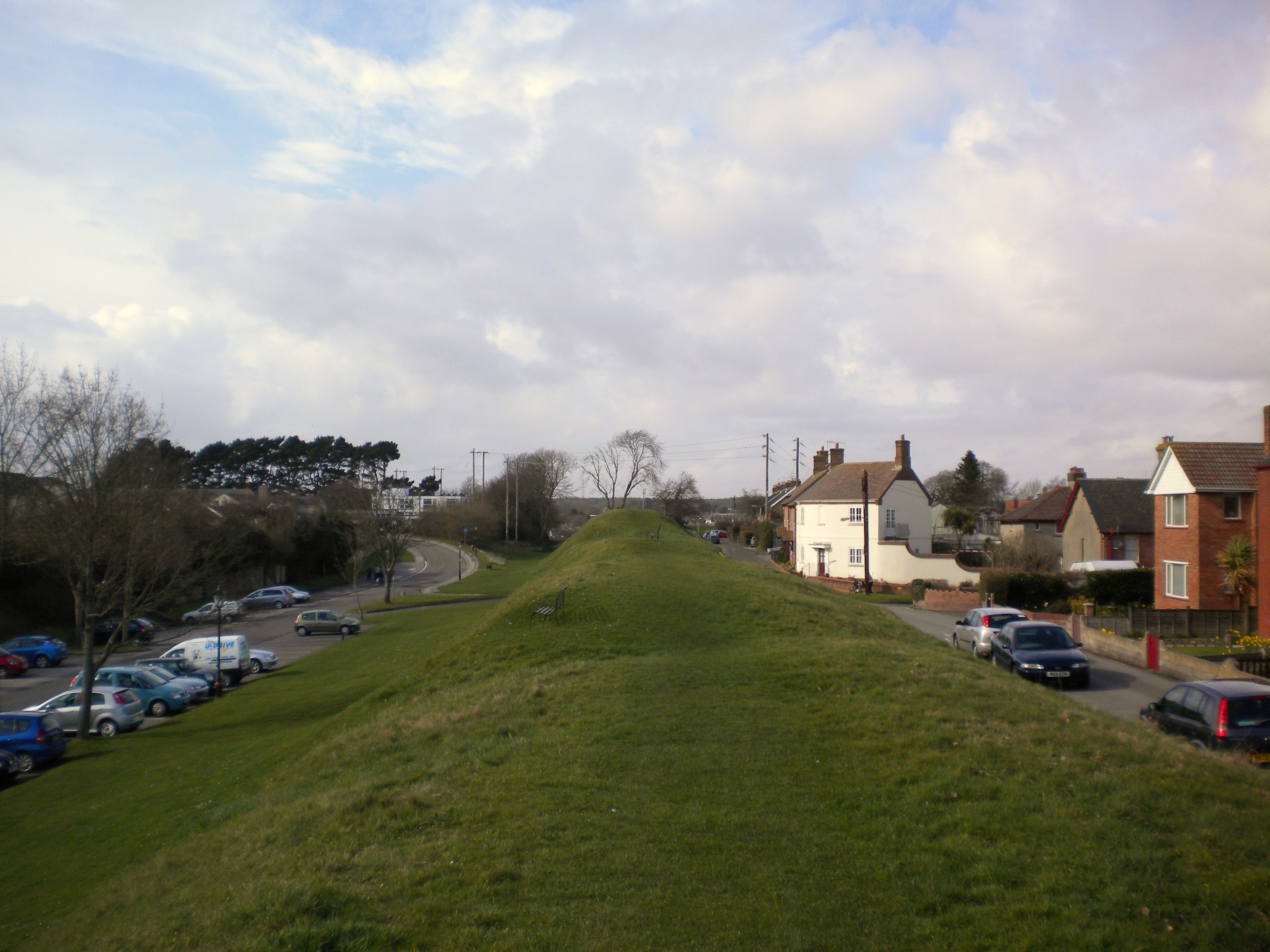 West Walls, Saxon earthworks at Wareham, Dorset, England.